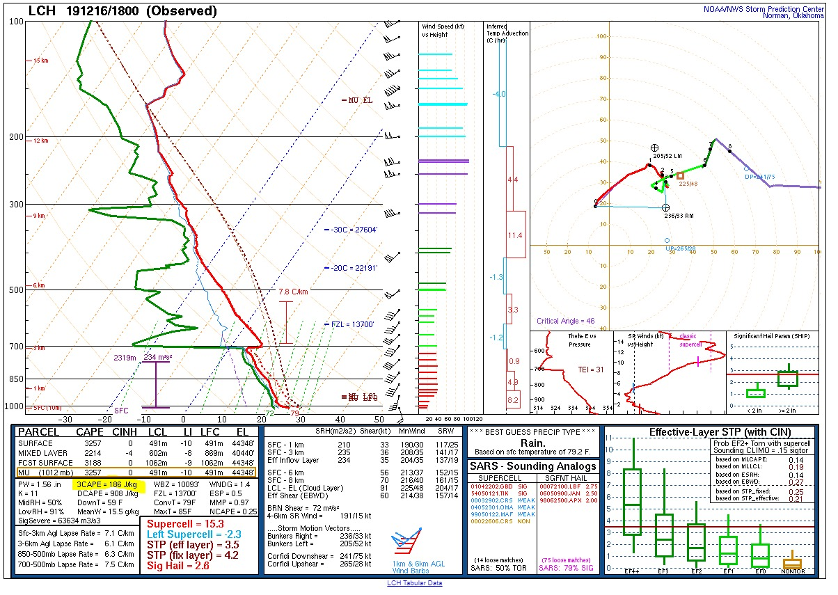 Lake Charles Sounding at 1800z on Dec 16th, 2019. Sounding took place while the Alexandria EF-3 tornado with winds of up to 160 mph was occurring.